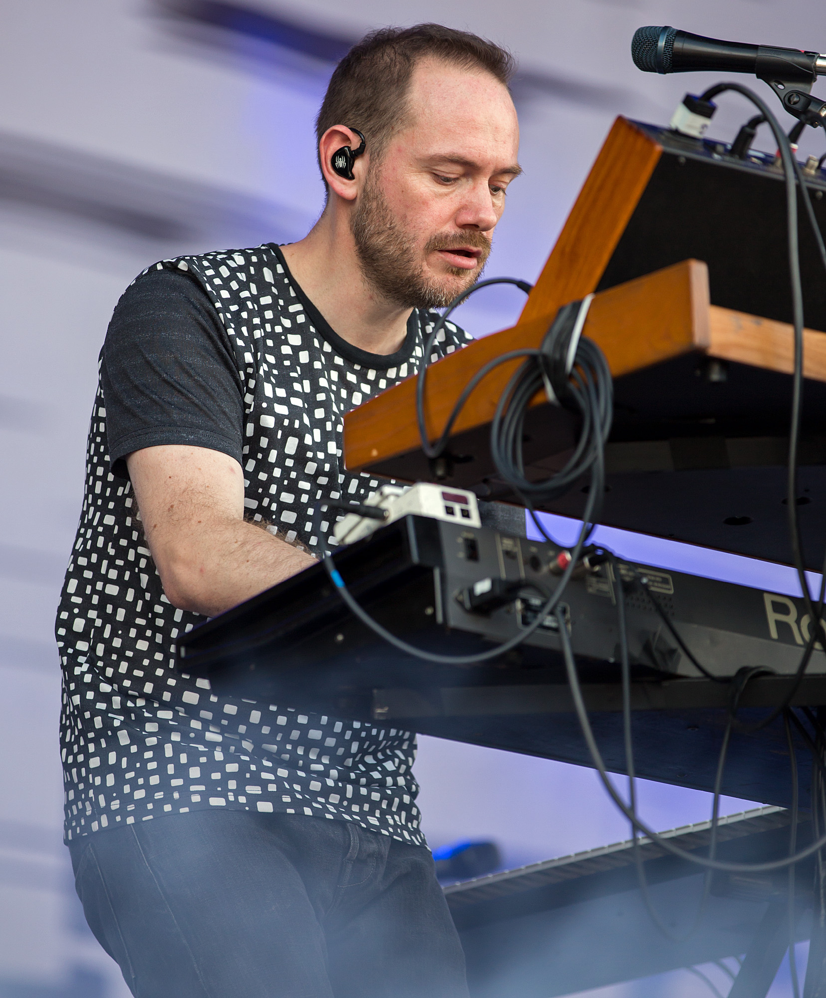 Iain Cook of Chvrches performing at the Austin City Limits Music Festival in Austin, Texas, 2014-10-10.